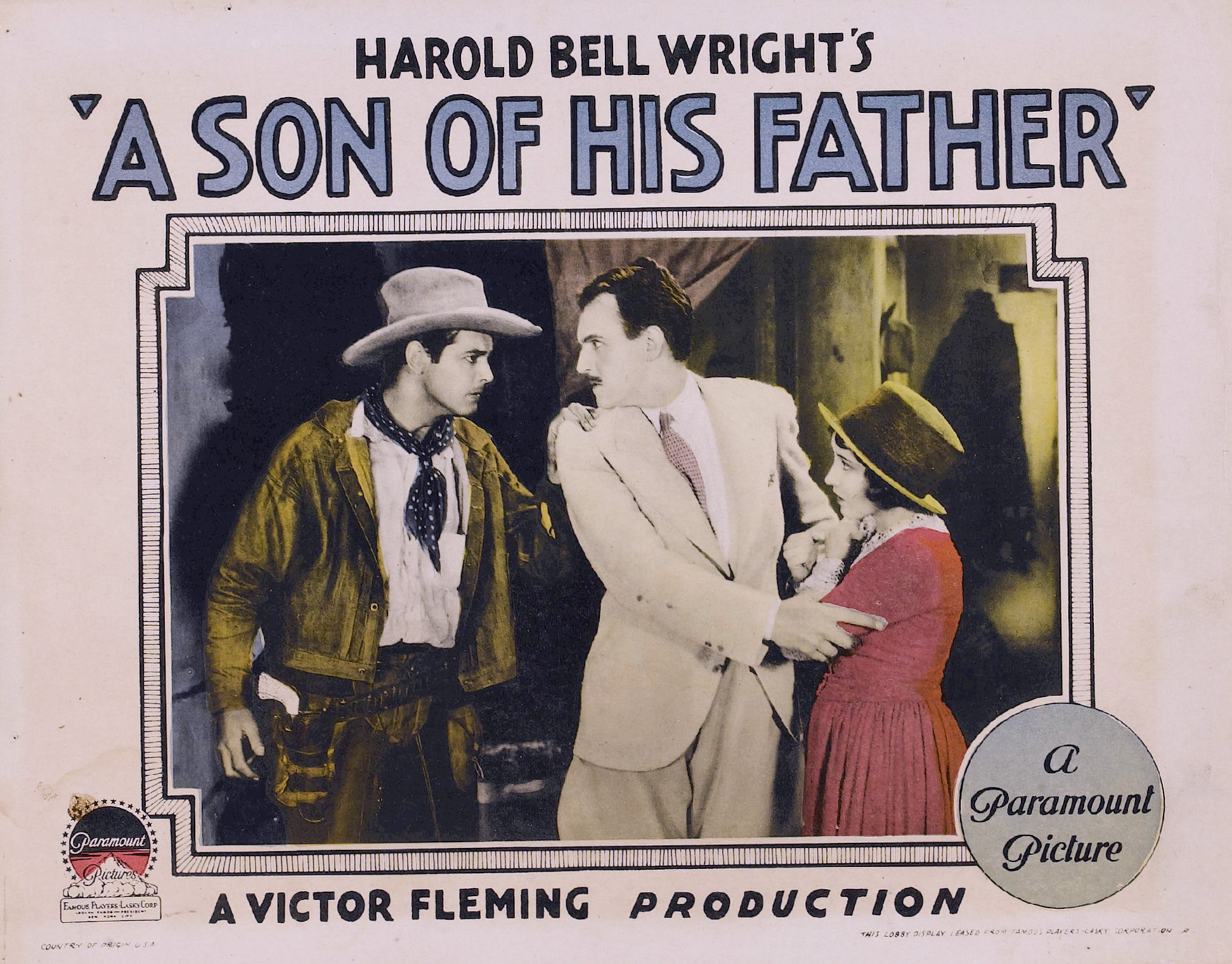 Lobby card for the American western film A Son of His Father (1925). There are no copyright marks on the item. At lower left is Country of origin USA. At lower right is This lobby display leased from Famous Players-Lasky Corporation.